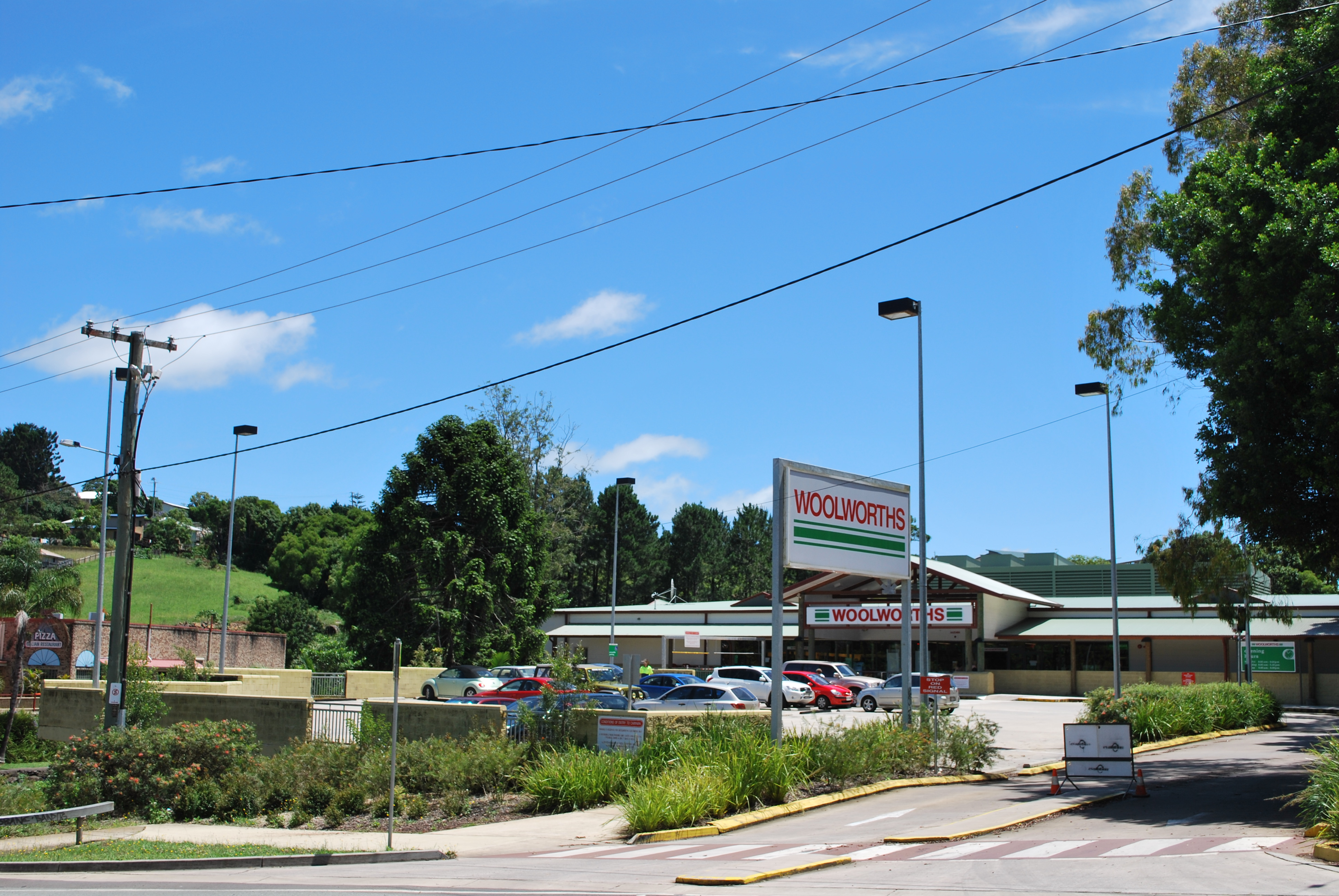 Woolworths supermarket at Maleny, Queensland